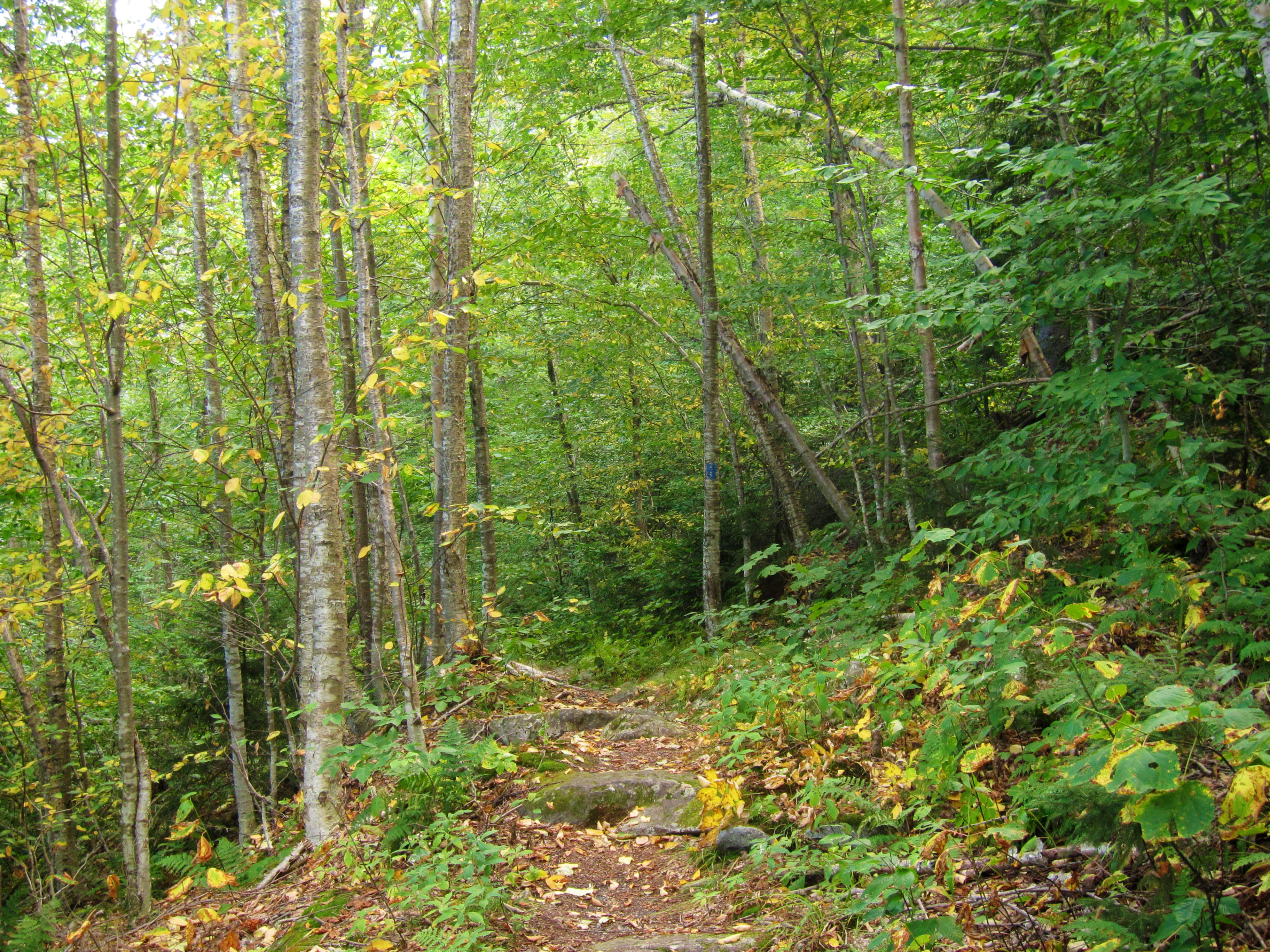 Forest in Mount Ascutney State Park